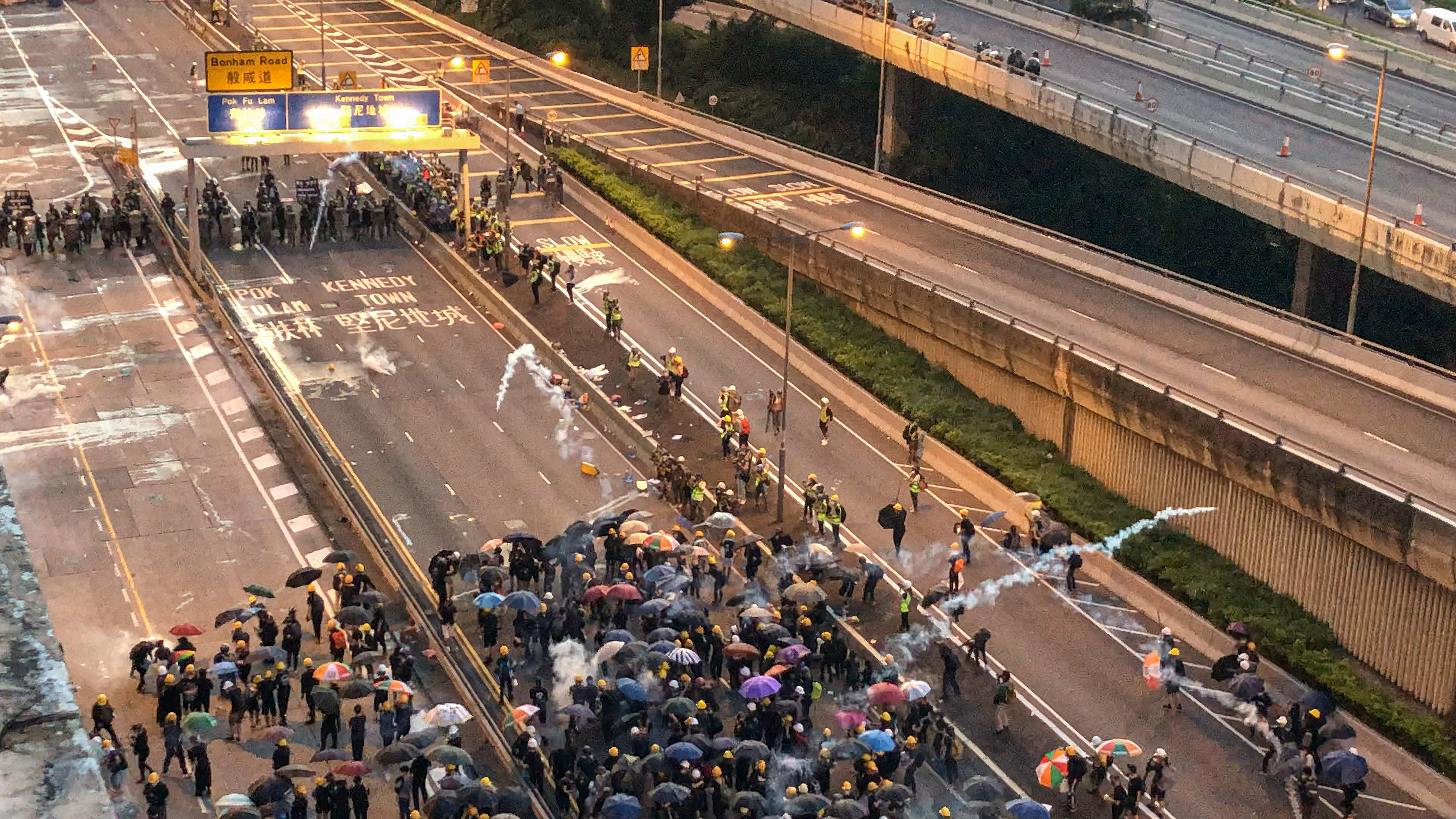 2019 Hong Kong anti-extradition law protest on 28 July 2019 in Hong Kong Island, captured by Studio Incendo from Flickr.